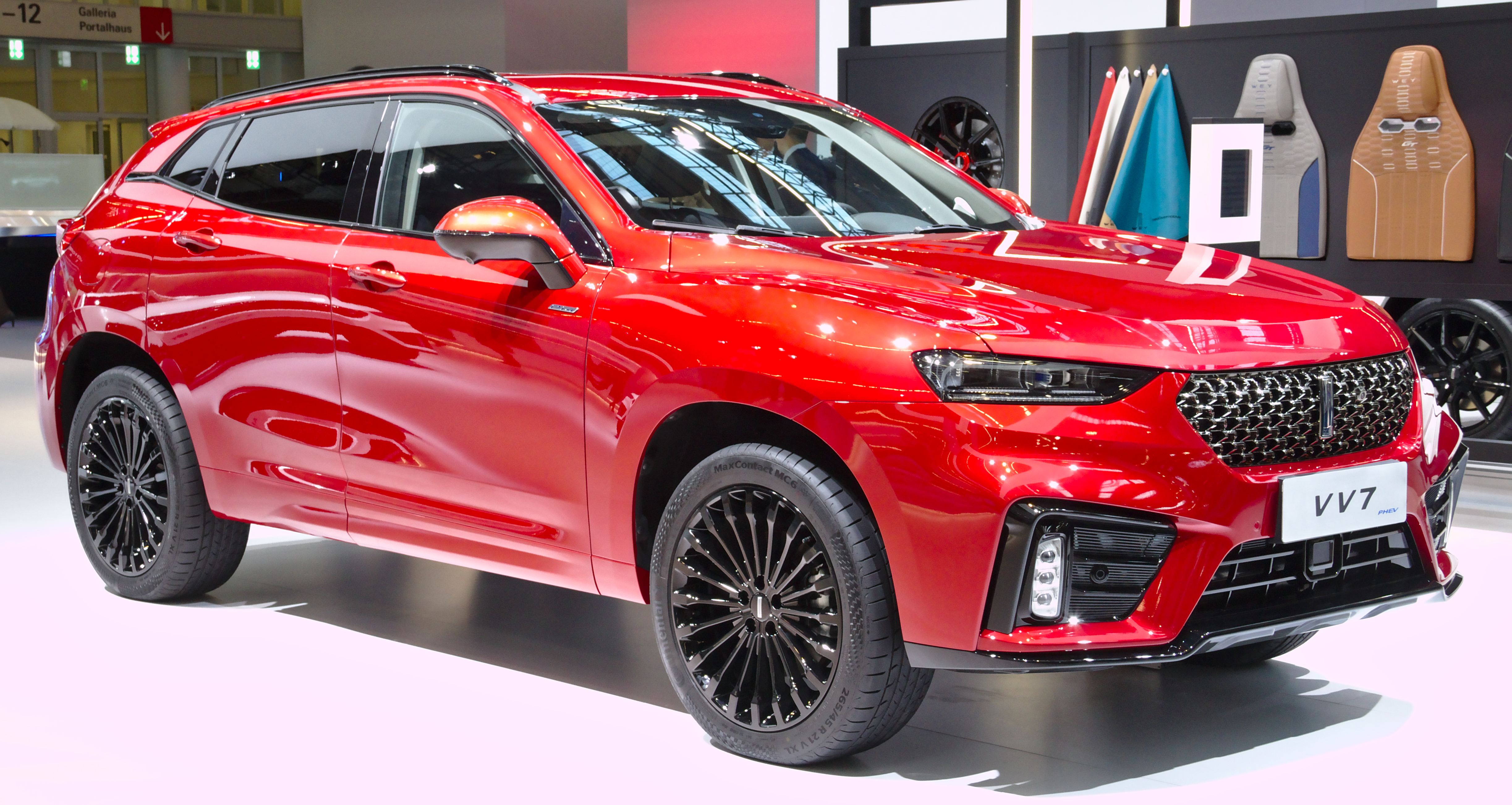 Wey_VV7_PHEV at IAA 2019